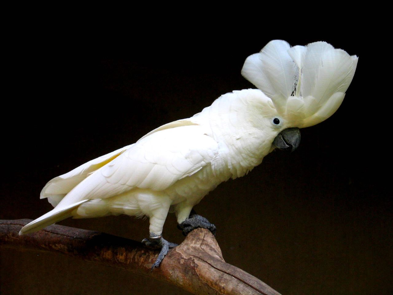 Umbrella Cockatoo (also known as White Cockatoo) at Bali Bird Park. Whole bird with crest upright.